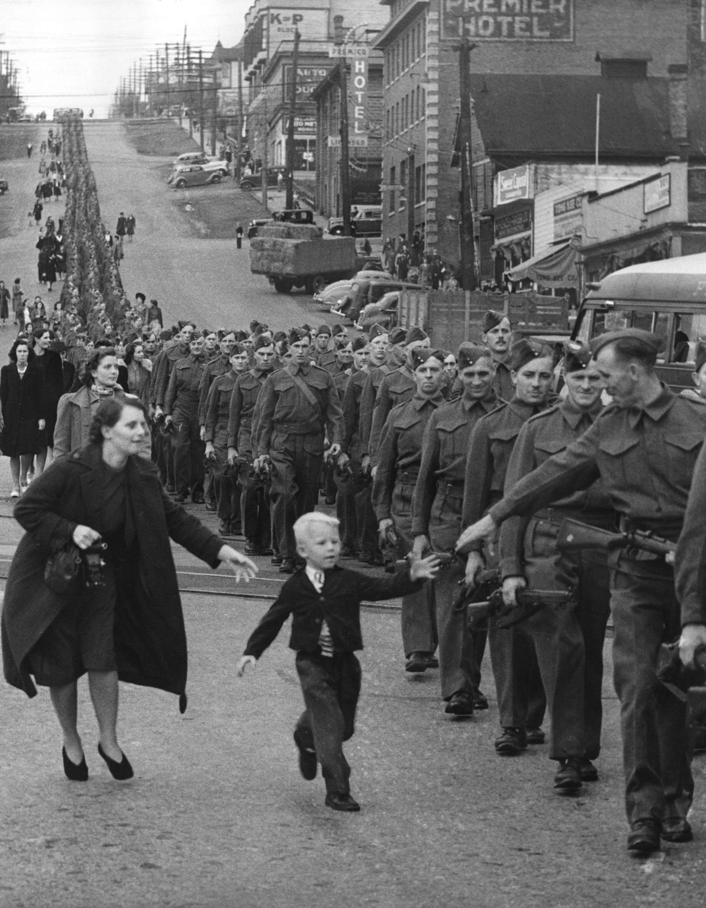 "Wait for me daddy":British Columbia Regiment, DCO, marching in New Westminster, 1940 (LP 109)